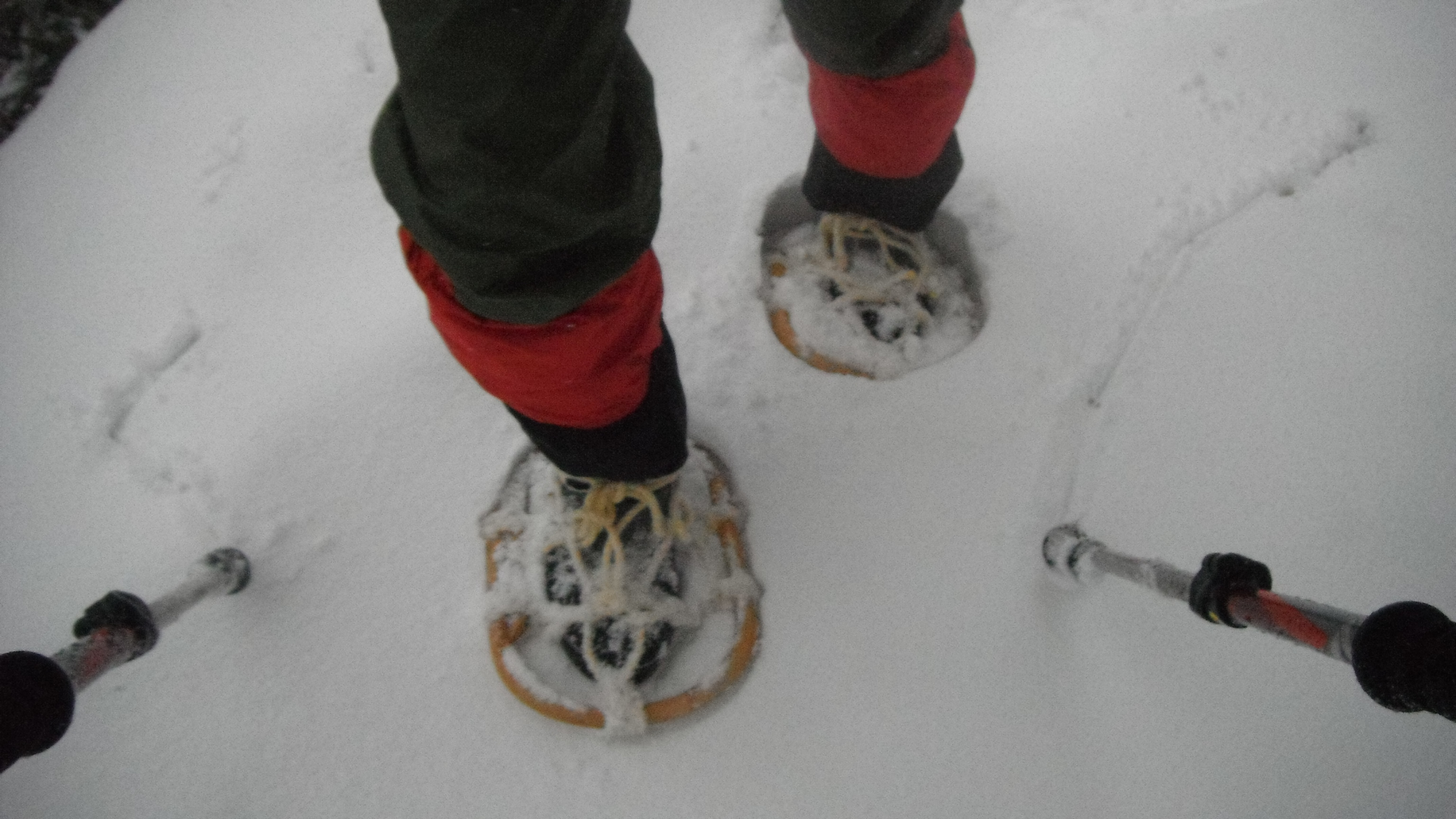 Snowshoeing with kanjiki (Japanese snowshoe)